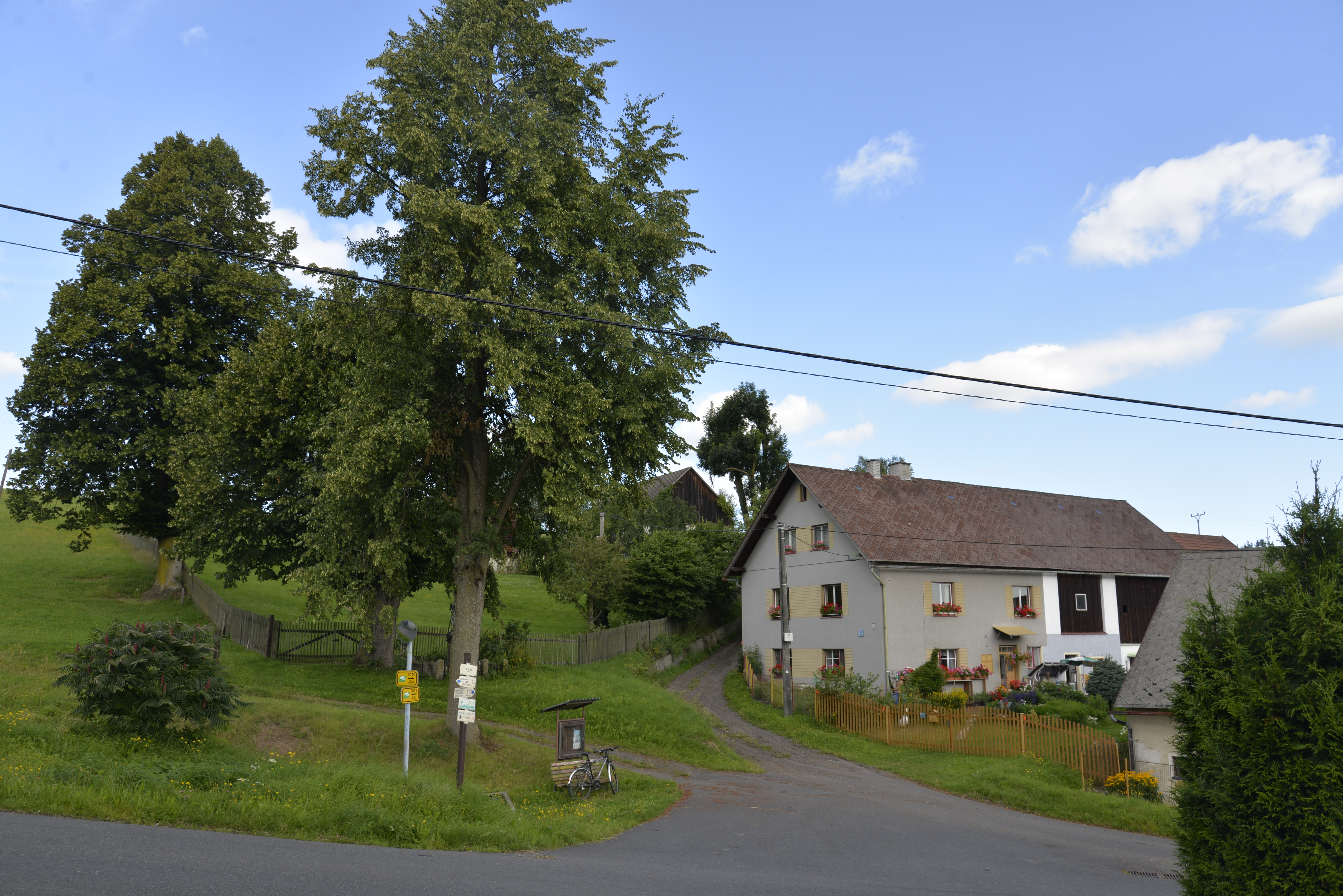 Rovná - small village, part of Petrovice u Sušice in Klatovy District